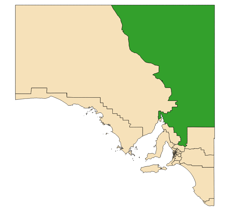 Electoral district 2018 boundaries shown in green